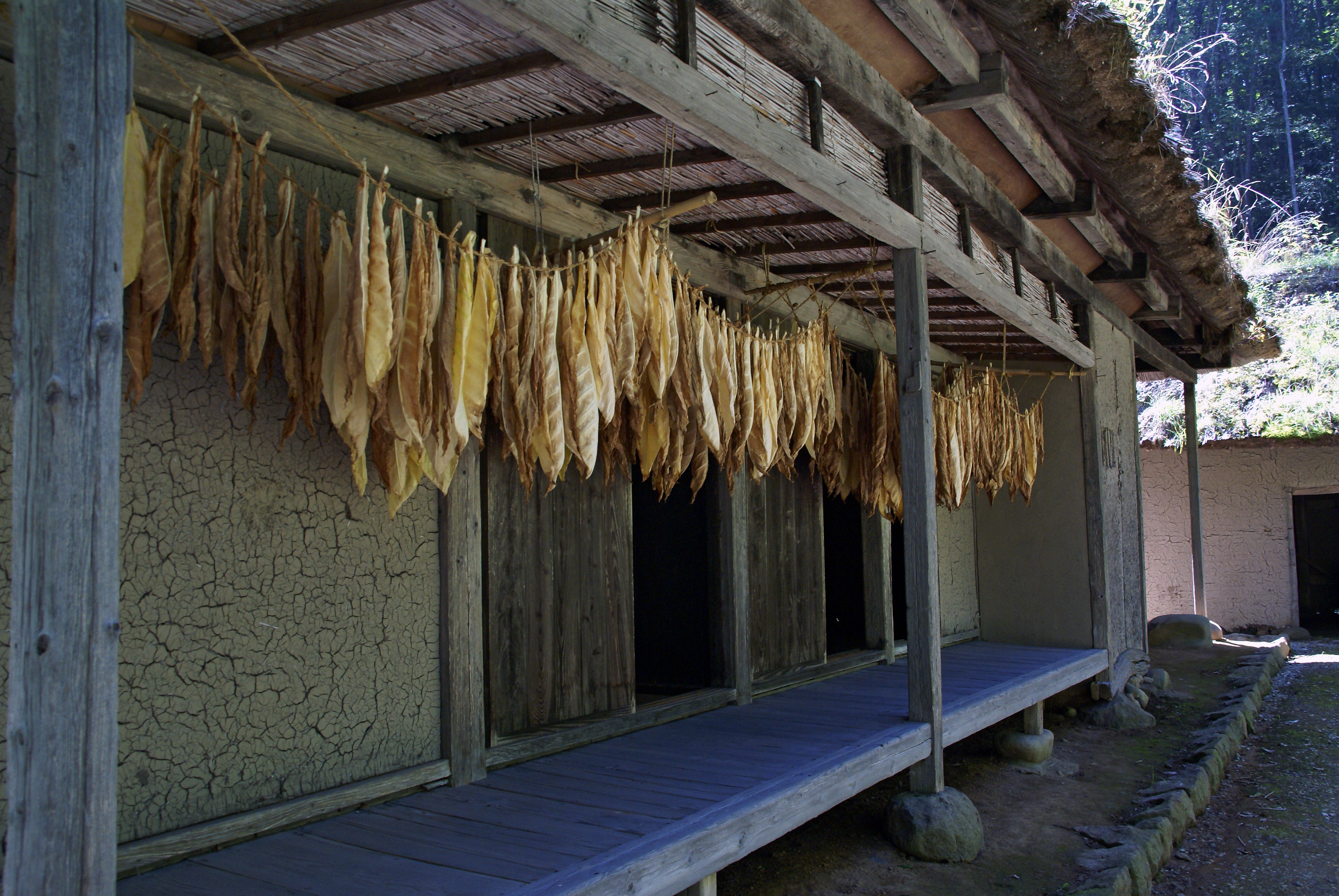 Michinoku Folk Village in Kitakami, Iwate prefecture, Japan